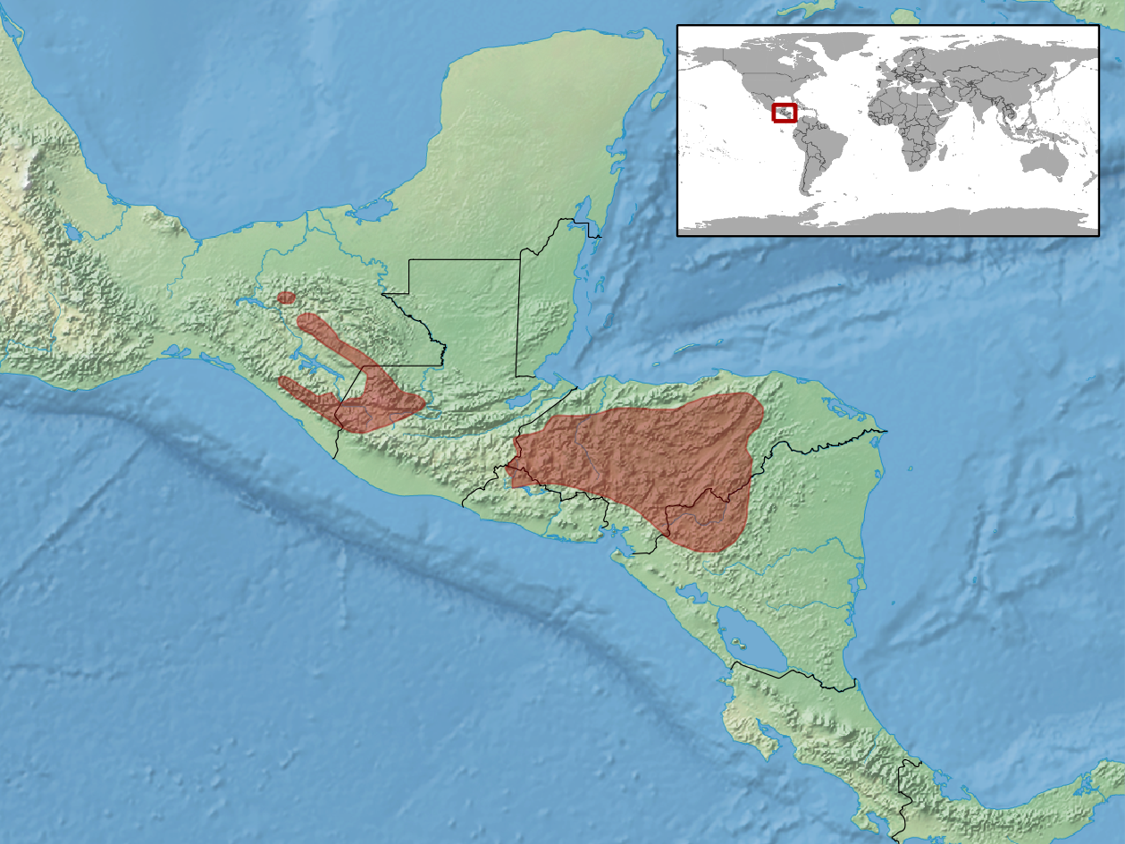 geographic distribution of Mesaspis moreletii (Native: El Salvador; Guatemala; Honduras; Mexico; probably Nicaragua)